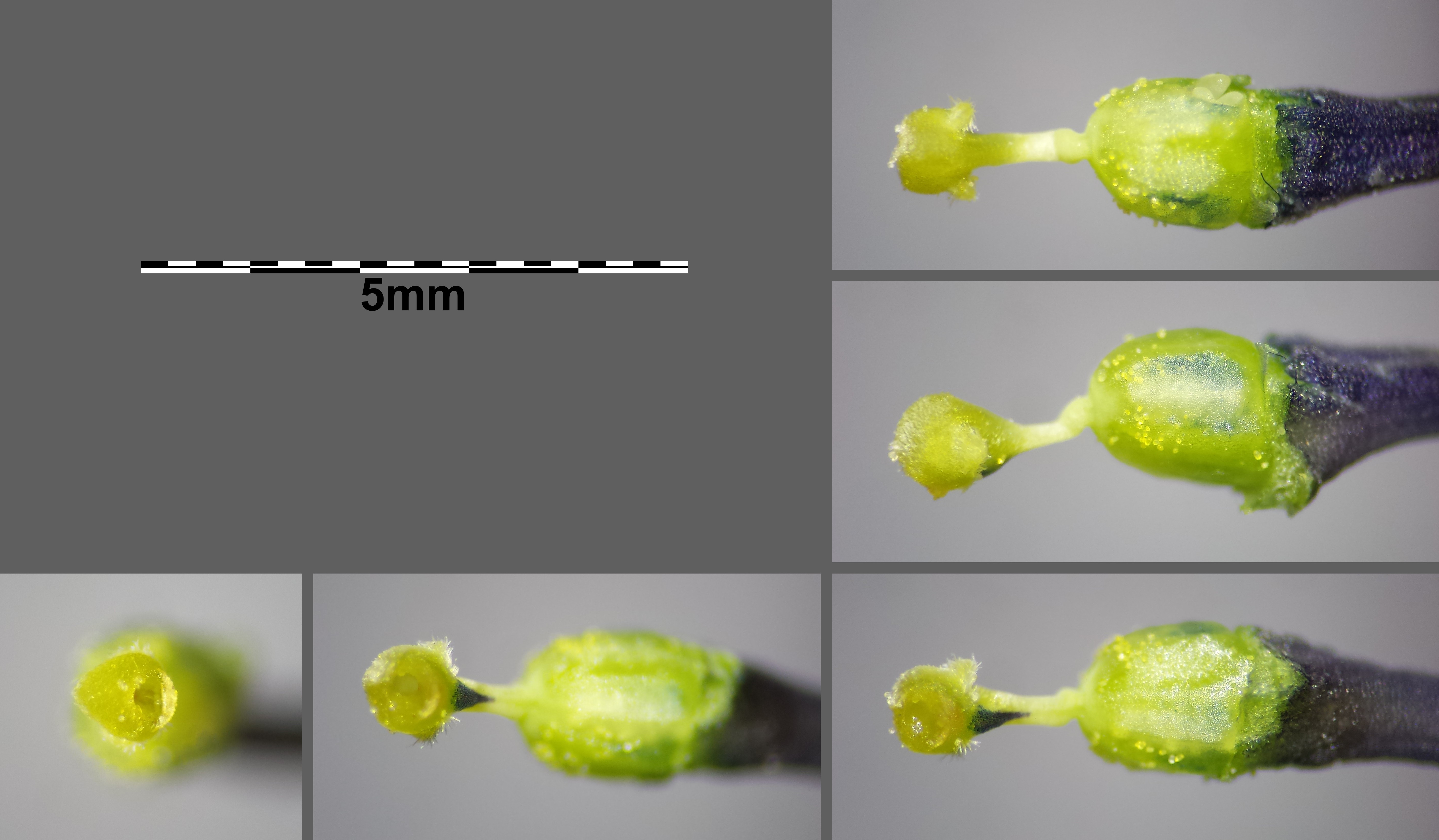 Ovary with stylus and stigma Taxonym: Viola arvensis subsp. arvensis ss Fischer et al. EfÖLS 2008 ISBN 978-3-85474-187-9 Location: Waschberg near Leitzersdorf, district Korneuburg, Lower Austria - 290 m a.s.l. Habitat: field